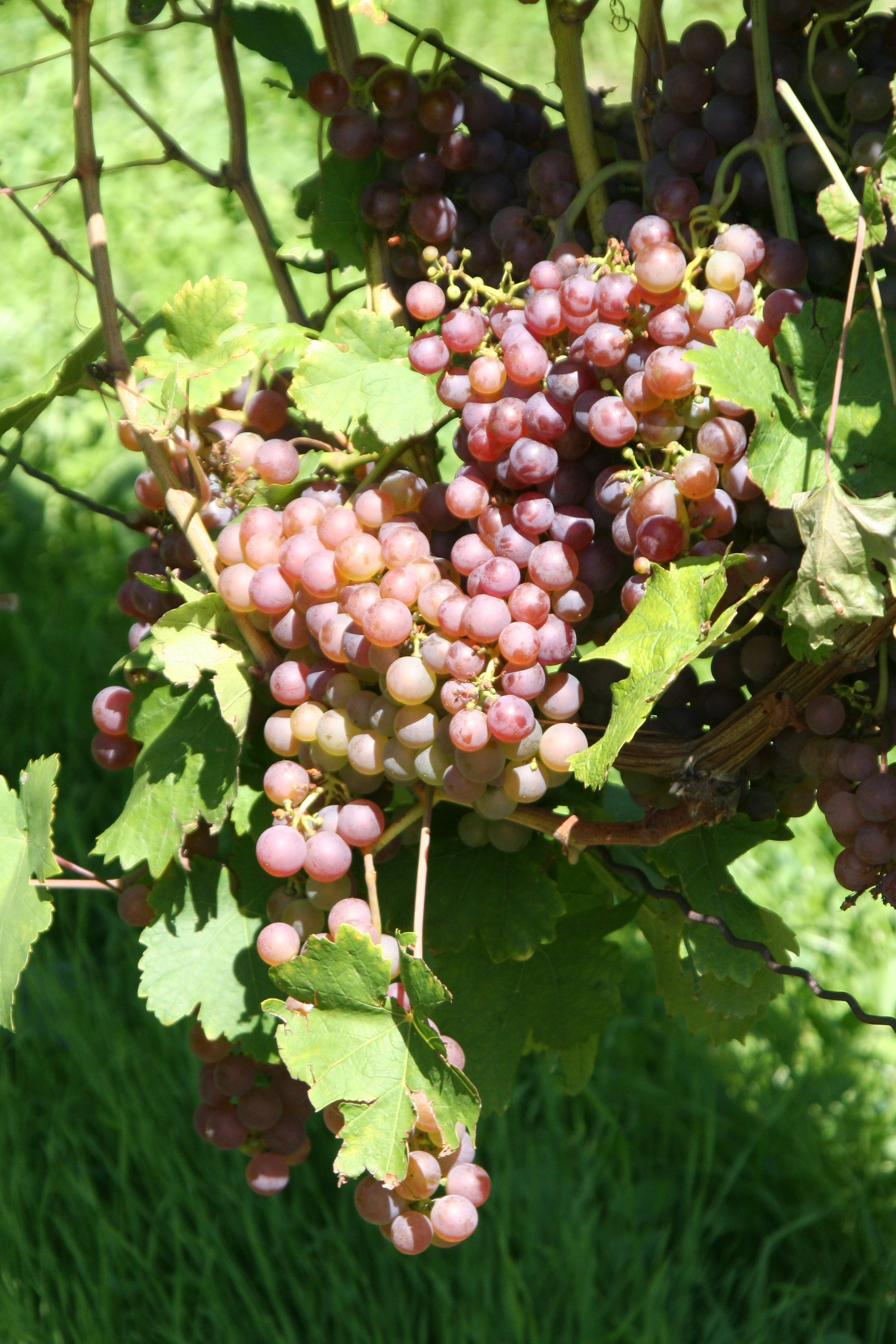 Grapes and leaves of the grape variety Roter Gutedel, photographed at the viticulture trail on the Schemelsberg hill in Weinsberg